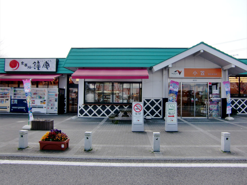 Ogasa parking area Tomei expressway Shizuoka Japan